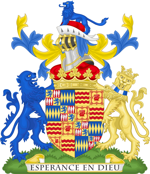 coat of arms of the duke of Northumberland Arms. Quarterly: 1st and 4th grandquarters: 1st and 4th counterquartered: 1st and 4th, Or a Lion rampant Azure (Brabant and Lovaine); 2nd and 3rd, Gules three Lucies hauriant Argent (Lucy); 2nd and 3rd, Azure five Fusils conjoined in fess Or (Percy); 2nd and 3rd grandquarters: quarterly: 1st and 4th, Or three Bars wavy Gules (Drummond); 2nd and 3rd, Or a Lion's Head erased within a Double Tressure flory counterflory Gules (Drummond, coat of augmentation). Crest. On a Chapeau Gules turned up Ermine a Lion statant with tail extended Azure. Supporters. Dexter: a Lion rampant Azure; Sinister: a Lion rampant guardant Or ducally crowned of the last gorged with a Collar company Argent and Azure. Motto. Esperance En Dieu (Hope in God). Cracroft's Peerage